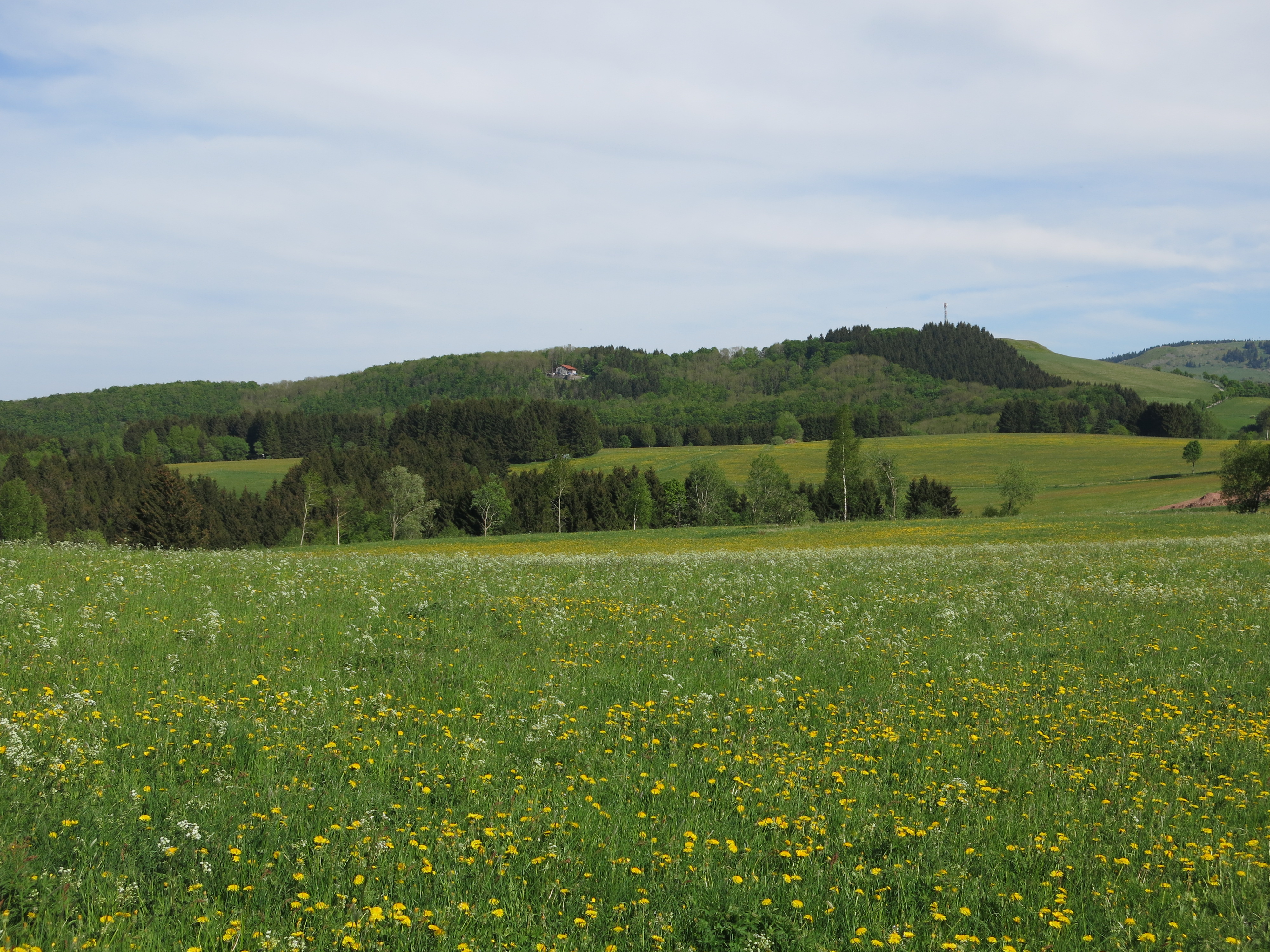 Weiherberg in the Rhön Mountains, seen from NW.